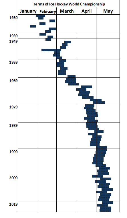 Chart of dates and terms of every Ice Hockey World Championships.